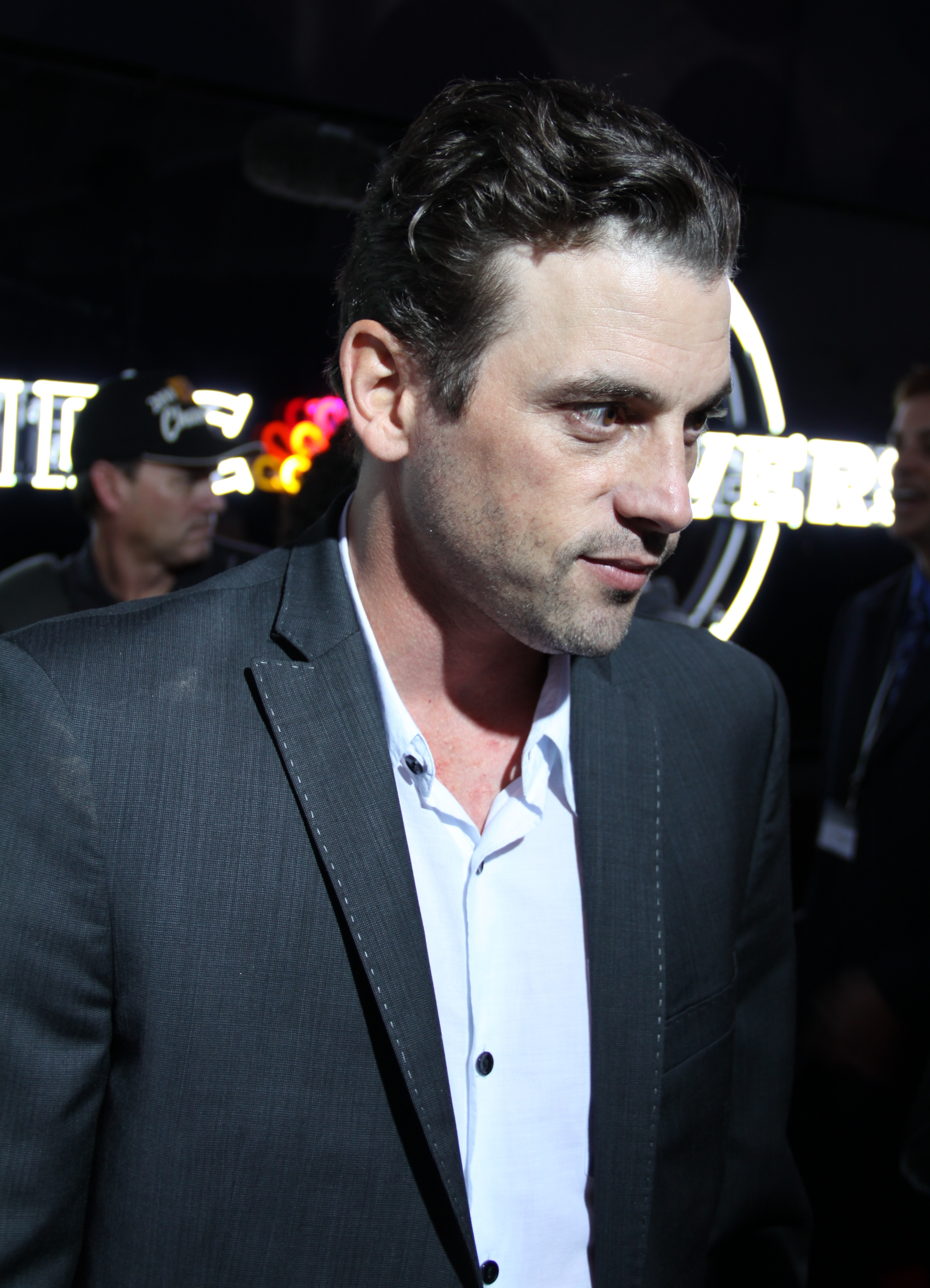 Skeet Ulrich at the NBC party at the Television Critics Association on July 30, 2010